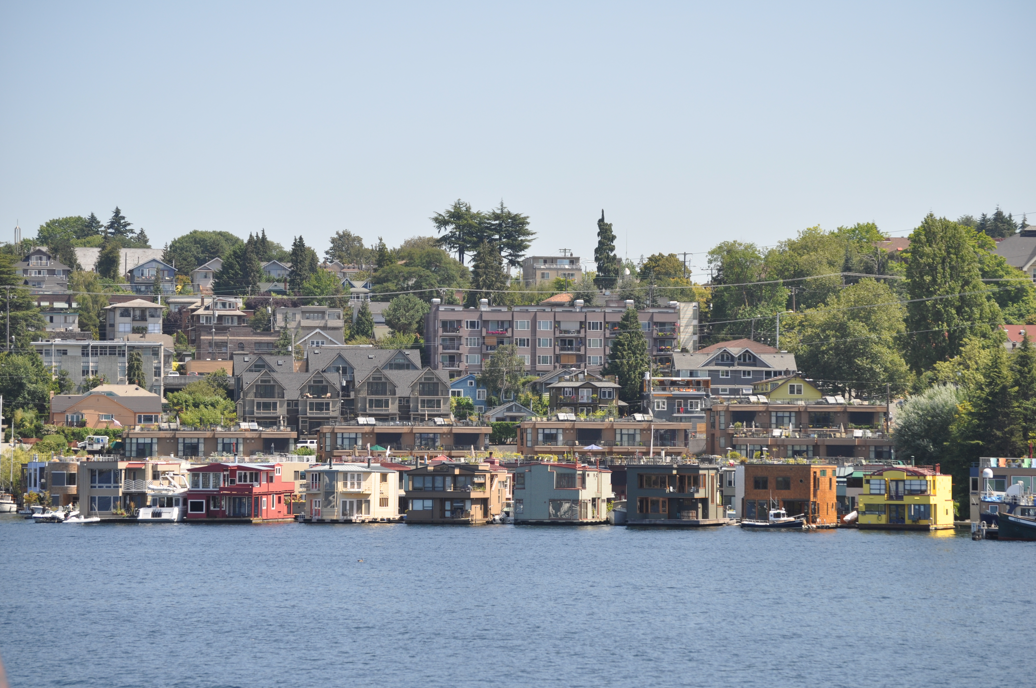 Roanoke Reef floating home development in the Eastlake neighborhood, Seattle, Washington, seen from Gas Works Park.